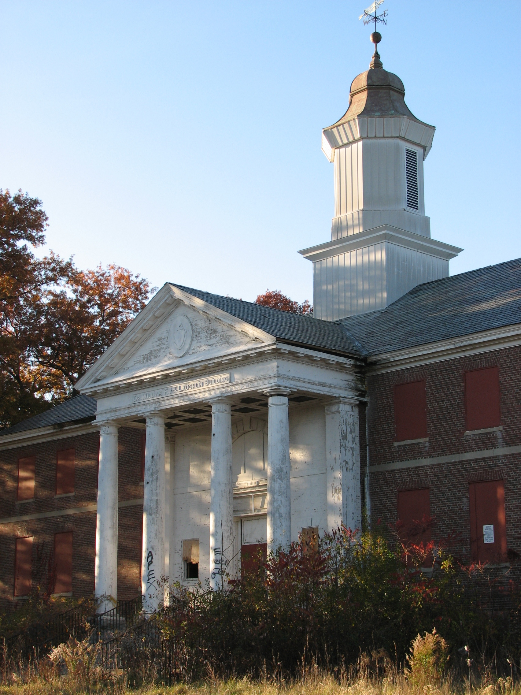 The administration building on the former grounds of metropolitan state hospital Waltham MA. This is the last unrenovated building.